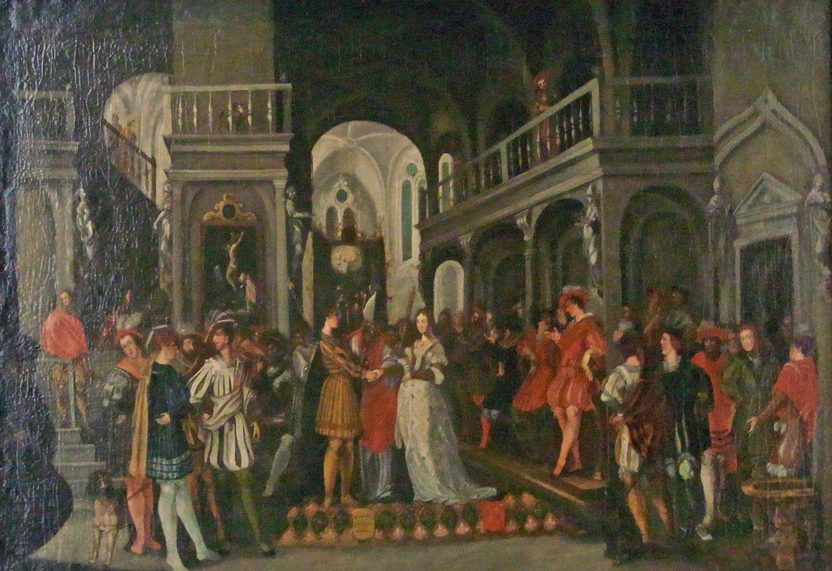 === Object === ArtistGeorg Donauer (1572/73 - 1634)TitleDie Hochzeit von Graf Eberhard IV. und Henriette von MömpelgardDescription detail Datebetween 1605 and 1608Current location Landesmuseum Württemberg Native nameLandesmuseum WürttembergLocationStuttgart, GermanyCoordinates48° 46′ 37.2″ N, 9° 10′ 46.09″ E Established1862Web pagelandesmuseum-stuttgart.deAuthority control : Q1332706 VIAF: 138971906 ISNI: 0000 0001 2314 7812 ULAN: 500309312 LCCN: n50011461 NLA: 36103358 WorldCat Permission (Reusing this file) The author died in 1634, so this work is in the public domain in its country of origin and other countries and areas where the copyright term is the author's life plus 100 years or less. This work is in the public domain in the United States because it was published (or registered with the U.S. Copyright Office) before January 1, 1923. This file has been identified as being free of known restrictions under copyright law, including all related and neighboring rights. Photograph PhotographerUser:Wuselig/AutorSourceOwn work detail